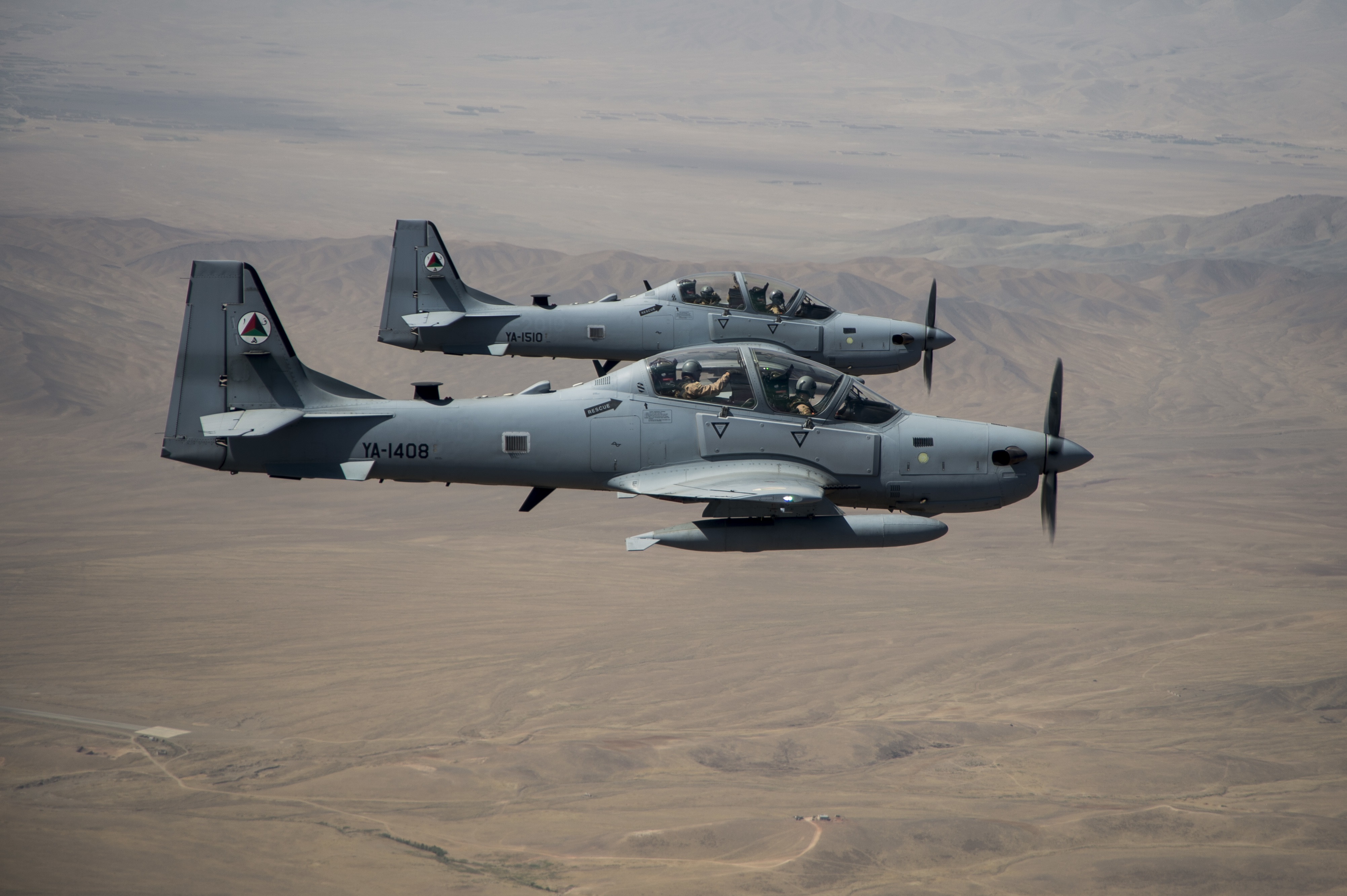 An Afghan Air Force A-29 Super Tucano soars over Kabul, Afghanistan, Aug. 13, 2016. The A-29 is the Afghan Air Force's latest attack airframe in their inventory. (U.S. Air Force photo/Staff Sgt. Larry E. Reid Jr., Released)